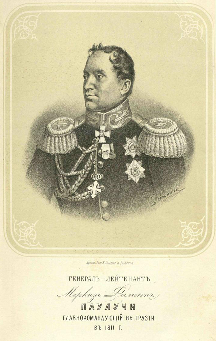 Philippo Paulucci